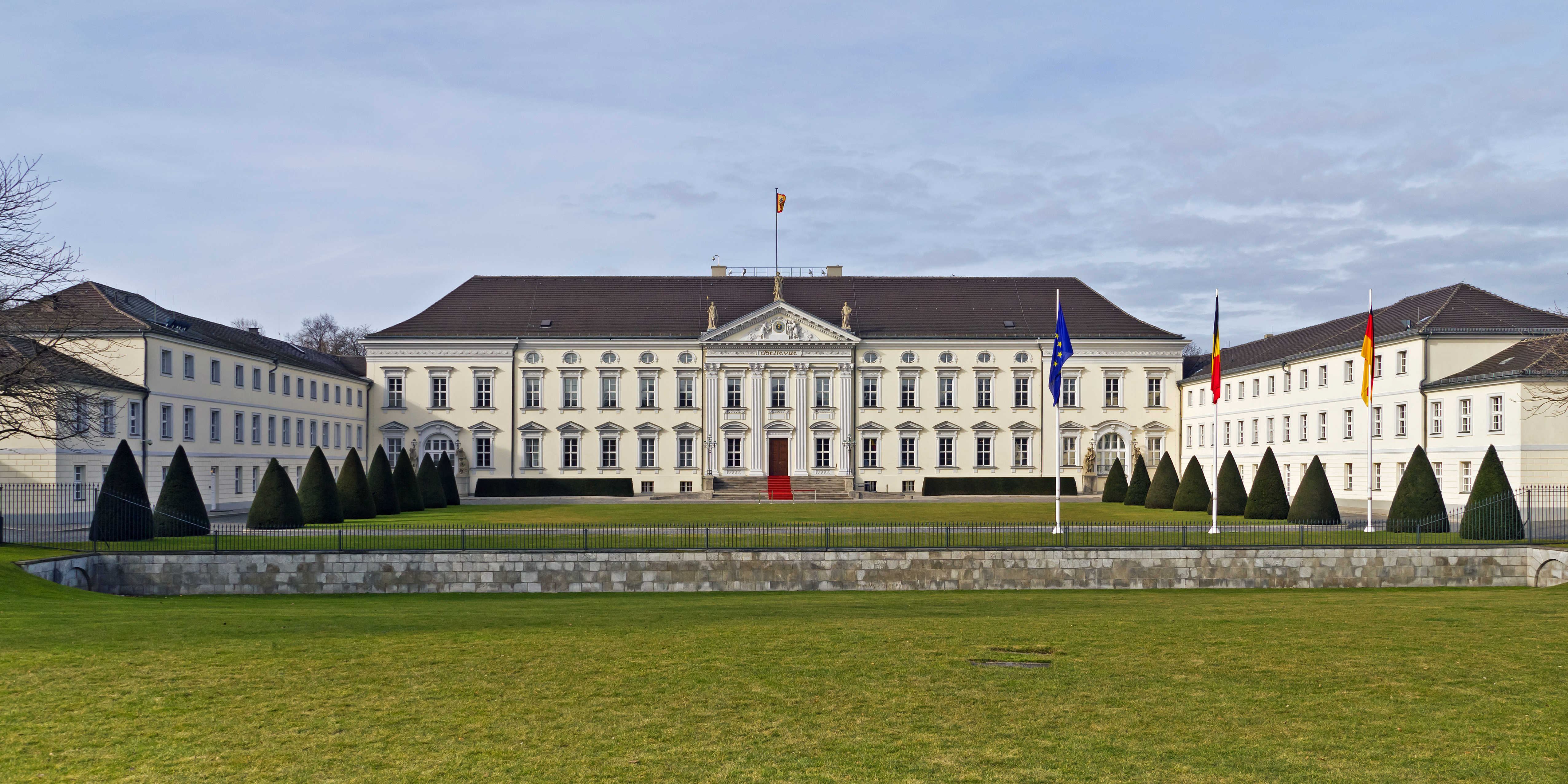 The Bellevue Palace in Berlin-Tiergarten, Germany